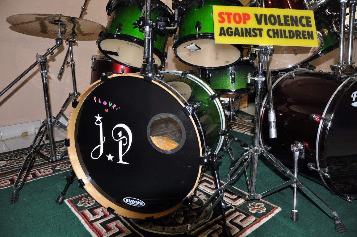 JP set drum